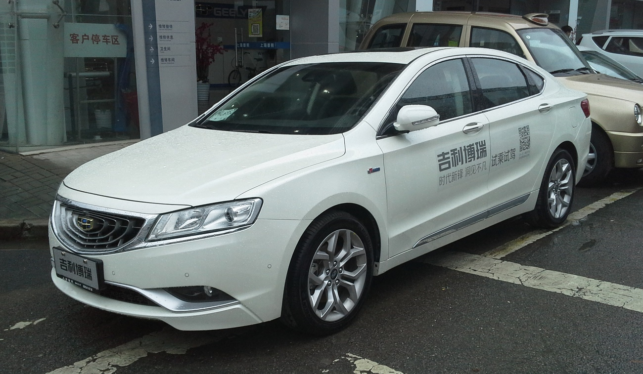 Geely Borui photographed in Shanghai, China.